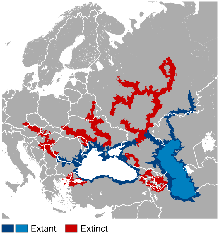 Geographical distribution of the Starry sturgeon Acipenser stellatus. The map was created using the Generic Mapping Tools, GMT, version 5.1.2.